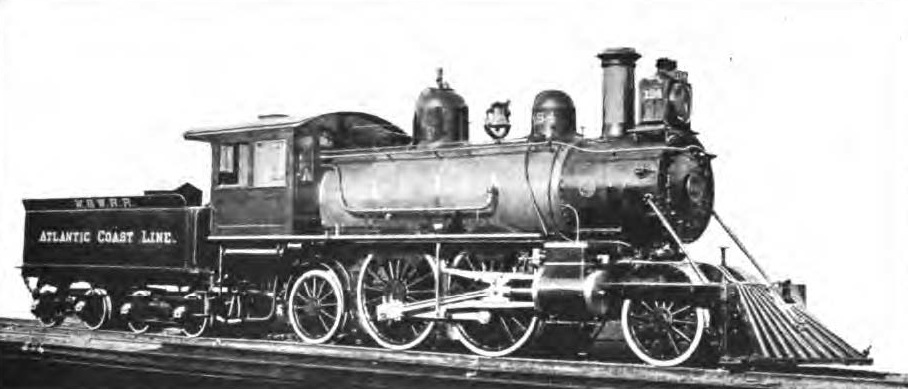 Baldwin 2-4-2 "Columbia" locomotive for the Atlantic Coast Line